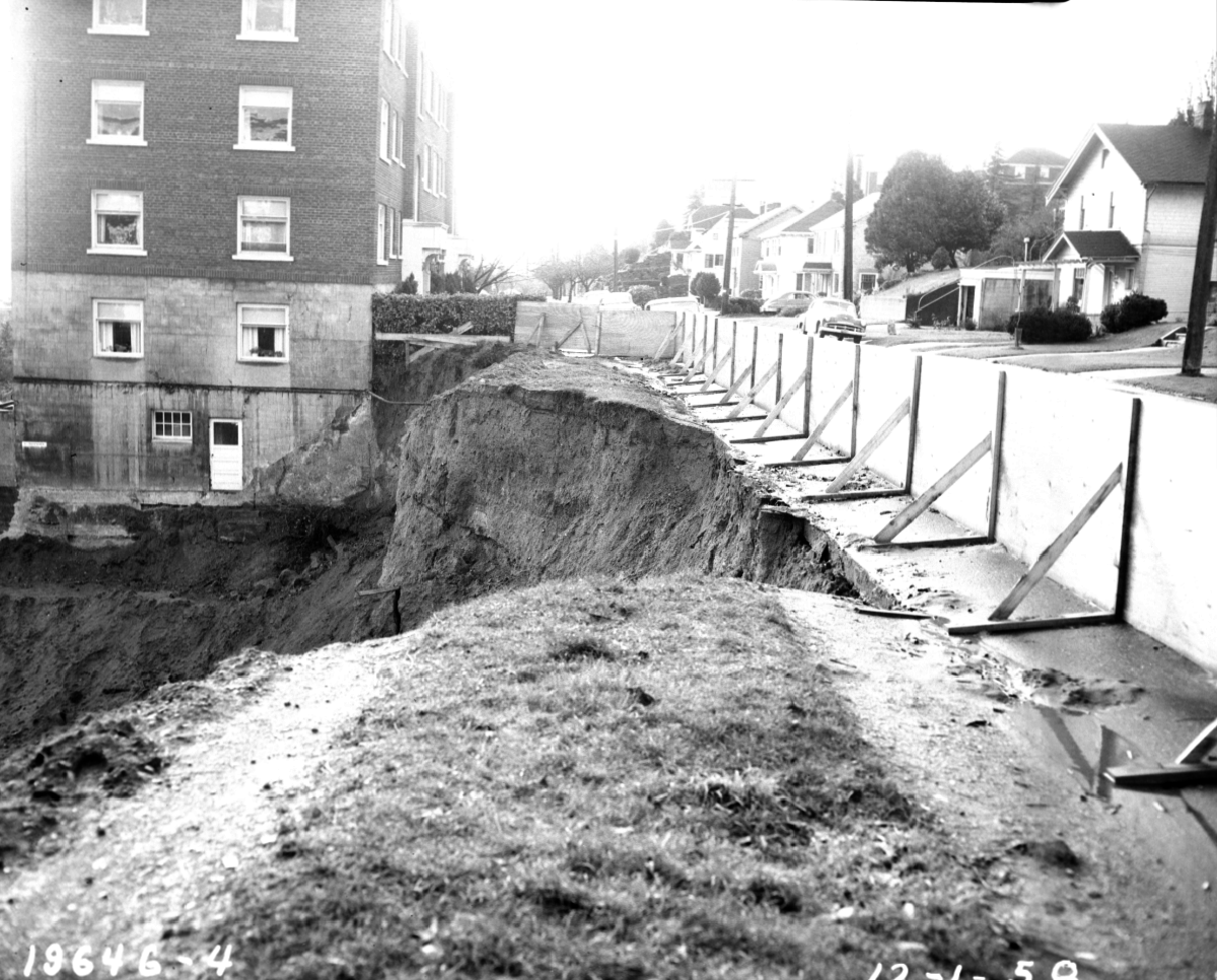 Street cave-in at Bigelow Ave N. and Howe St., Queen Anne Hill, Seattle, Washington, 1958. Howe no longer reaches Bigelow, possibly because of this; the last block up to Bigelow is now just a path. Item 59642, Engineering Department Photographic Negatives (Record Series 2613-07), Seattle Municipal Archives.